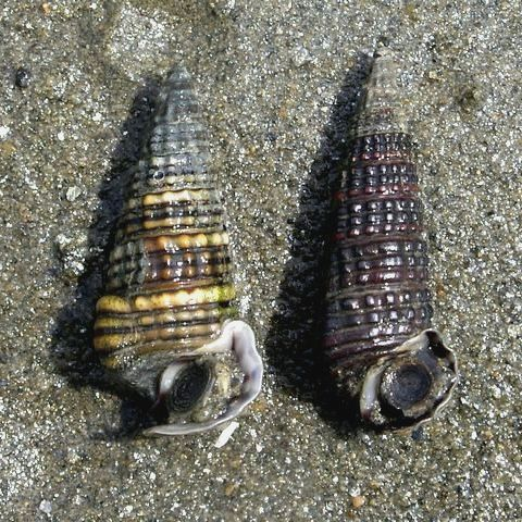 Comparison of Pirenella nipponica Ozawa & Reid in Reid & Ozawa, 2016 (left) and Pirenella pupiformis Ozawa & Reid in Reid & Ozawa, 2016 (right). Both snails are from the same mudflat in Saikai, Nagasaki, Japan.